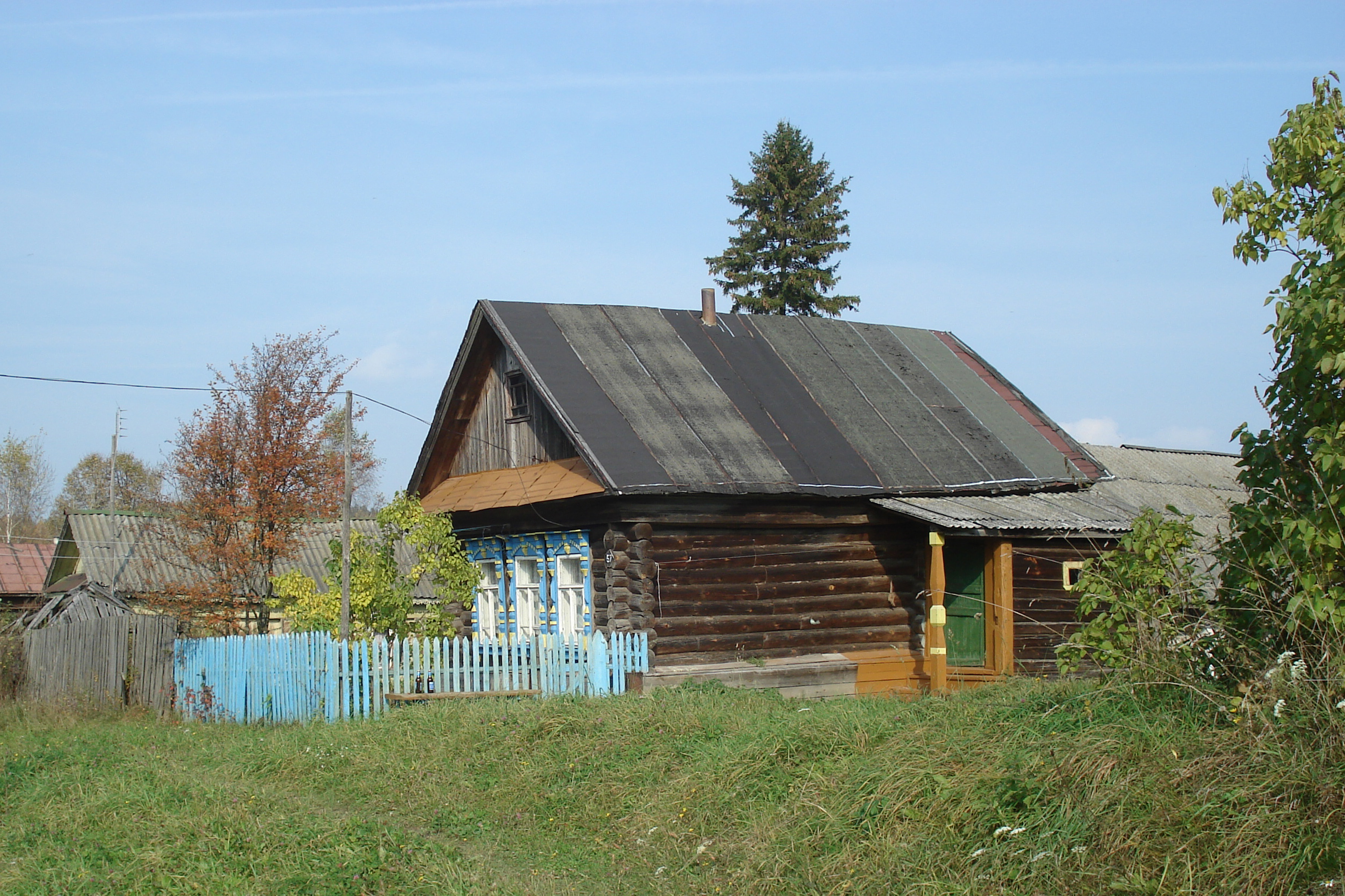 The Village of Schedrino. Nizhegorodsksya oblast. Russia.